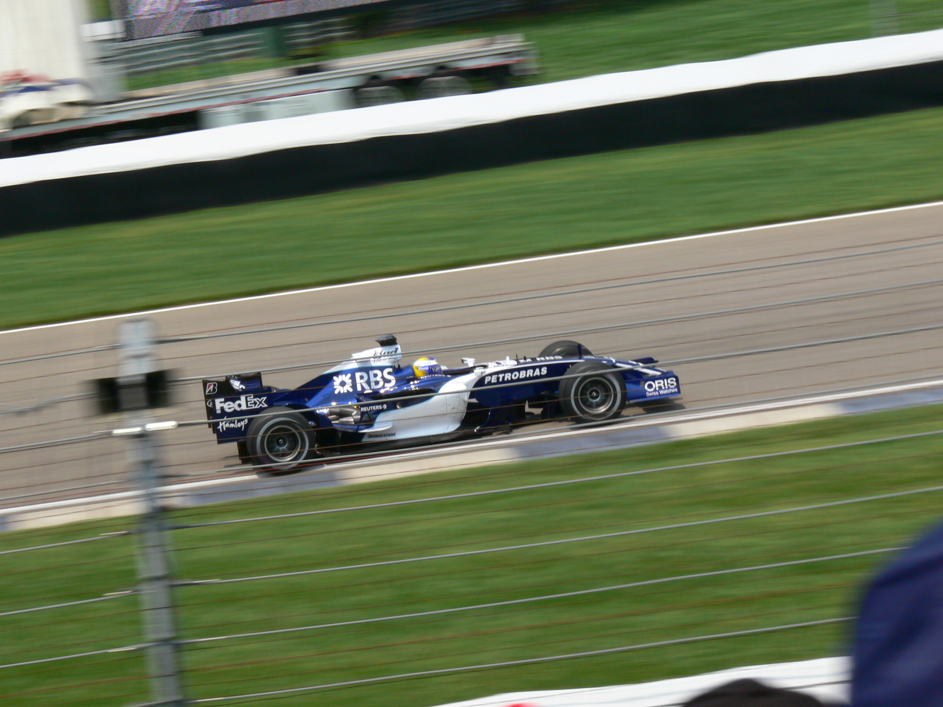 Nico Rosberg, driving his Williams Cosworth at the 2006 United States Grand Prix.